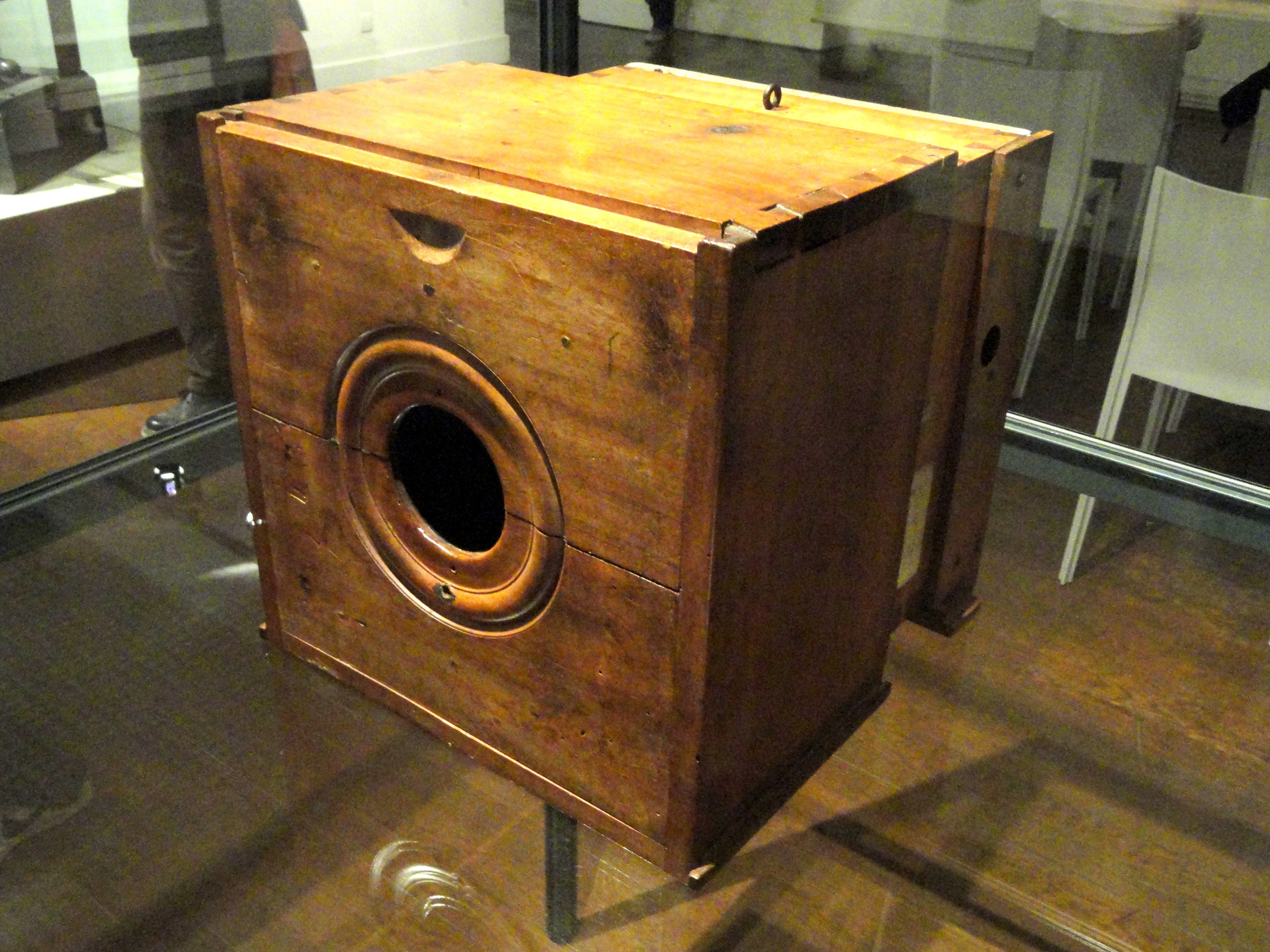 Exhibit in the Musée Nicéphore Niépce, 28 Quai Messageries, Saône-et-Loire, France. There were no restrictions on photography in the museum.